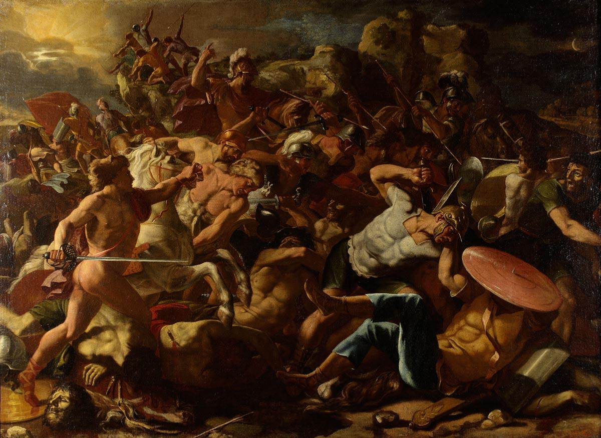 Pendant to The Victory of Joshua over the Amalekites in St. Petersburg.